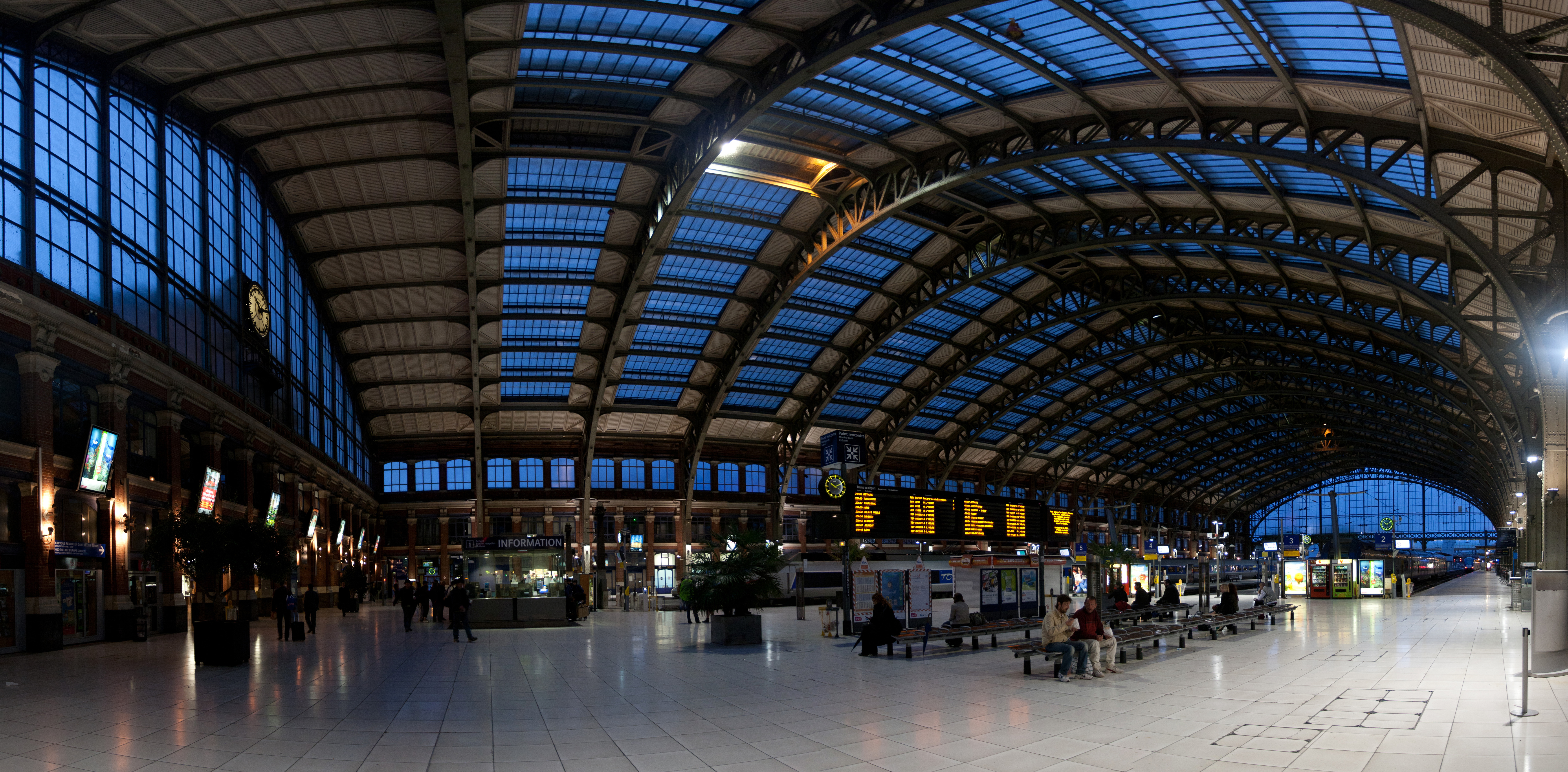 A panoramic view of Gare de Lille Flandres, or Lille-Flandres Railway Station, in Lille, France.